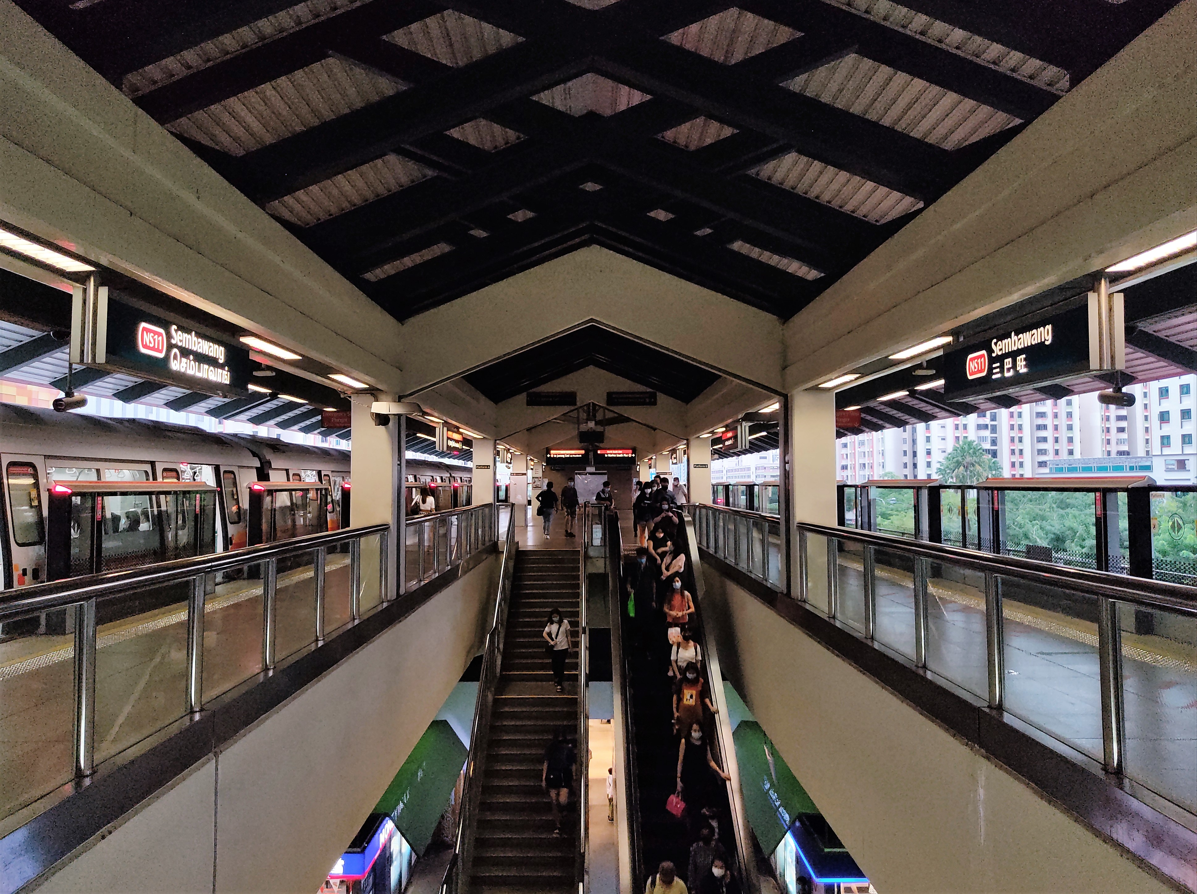 NS11 Sembawang MRT platforms